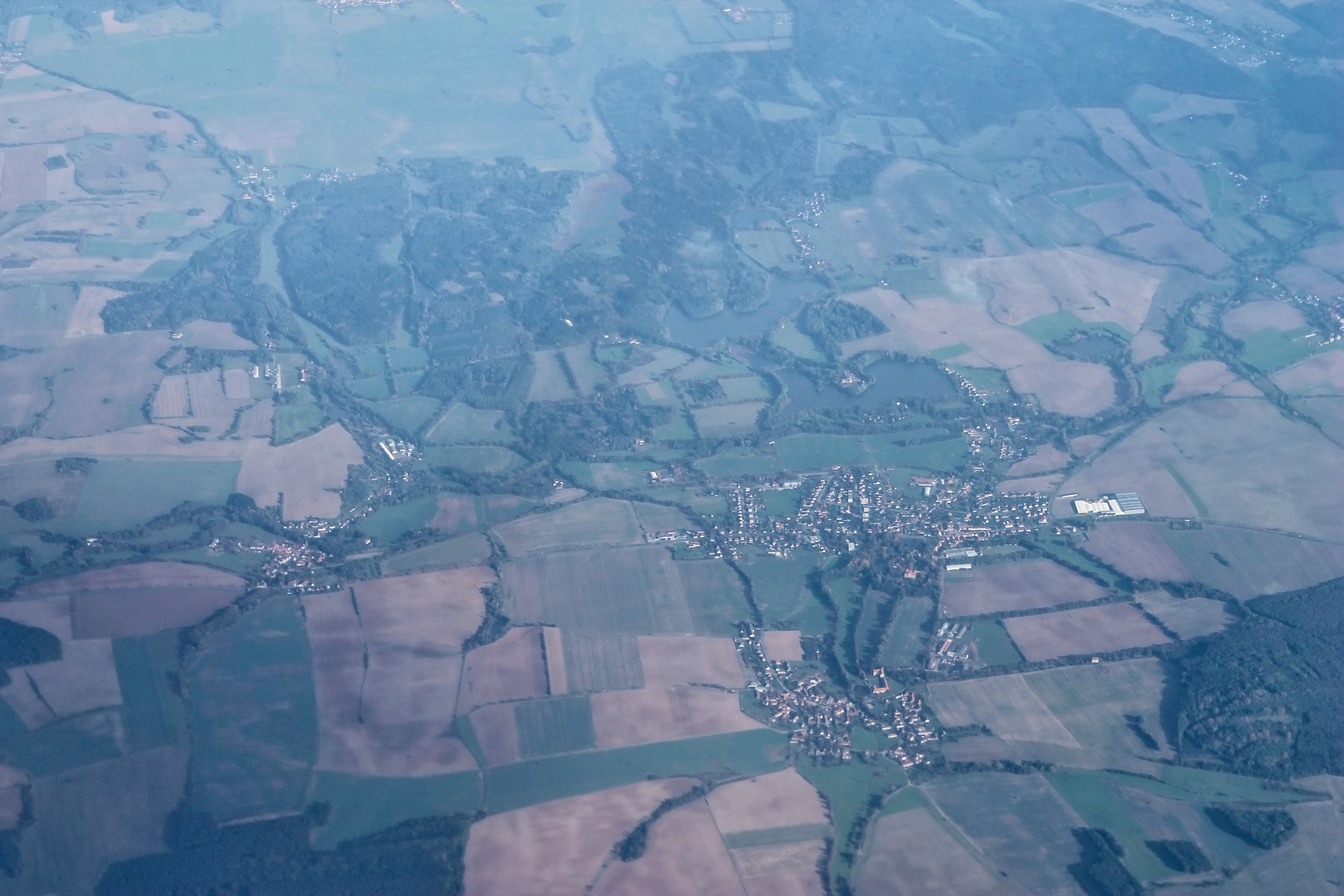 Aerial view of Čimelice. The photo was taken from the plane Airbus A321 (regidtration OK-CED) on the flight OK-701 Madrid–Prague (Czech Airlines). There is Čimelice village in the right, meanwhile in the left and right bottom there are parts Krsice and Rakovice. There is areal of the company Siko in the far right. There are ponds in the background and there is chateau in the middle. The axis of the photo is the 1st class Road number 4.